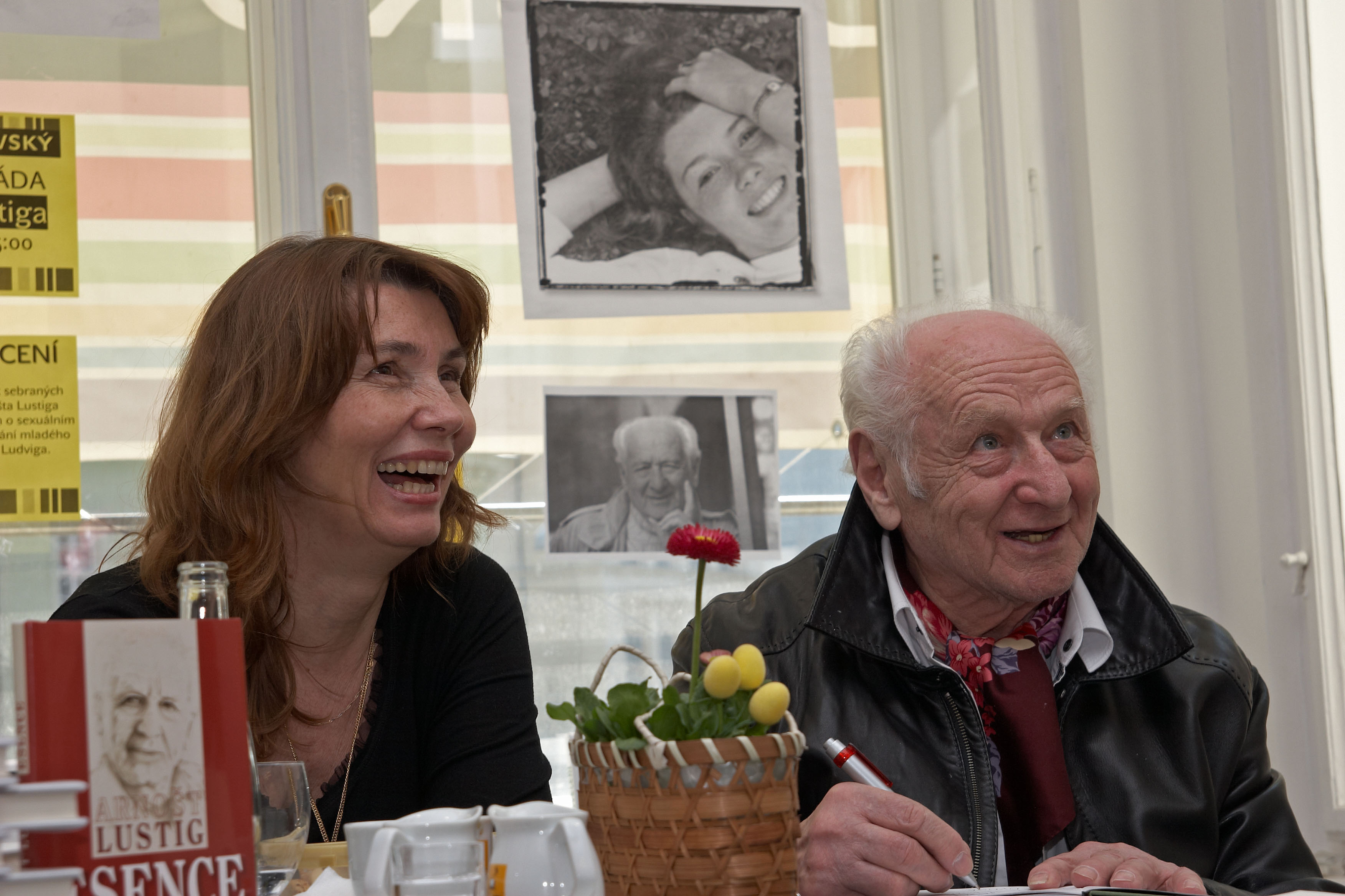 Arnošt Lustig and Markéta Mališová giving autographs in Brno 2. 4. 2009